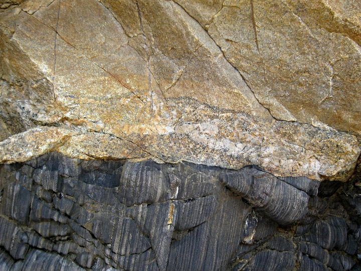 Contact between granite (light-coloured rock) and hornfels (dark-coloured striped rock) on the island of Ile Milliau near Trébeurden in Brittany, France. The granite is the porphyritic La Clarté variety of the Ploumanac'h granite pluton of Carboniferous age. The hornfels is a contact metamorphic rock that was formed by the heating of older sedimentary rock when the hot granitic magma intruded into the sedimentary rock. The hornfels contains the mineral andalusite. The blackest bands of the hornfels also contain the mineral cordierite.